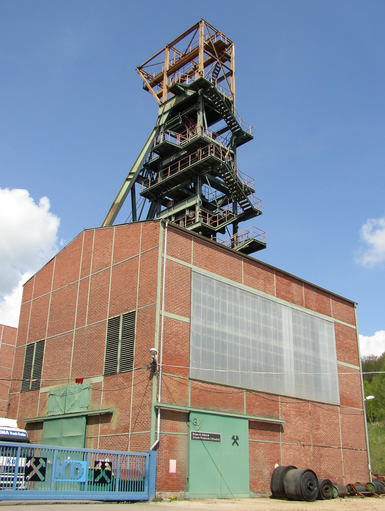 Mine shaft in Bernterode in Thuringia, Germany